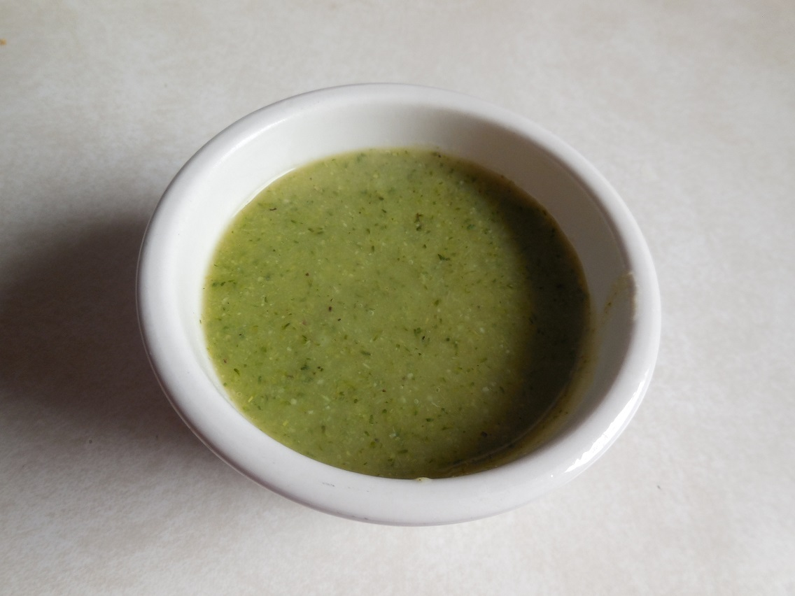 Broccoli Soup